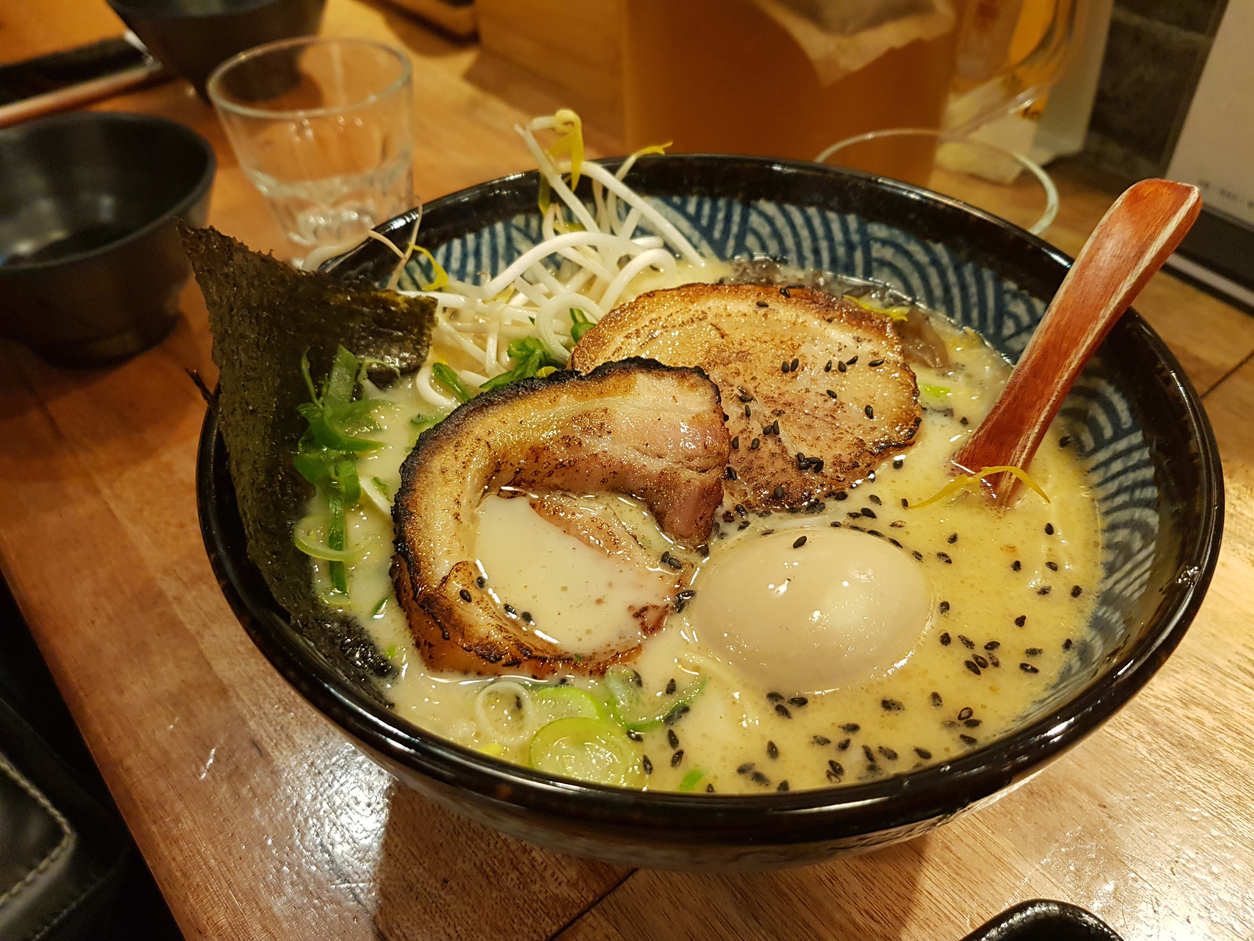 Japanese cuisine